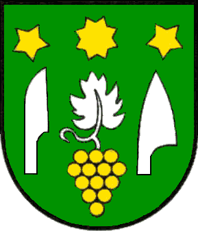 Coat of arms of Čebovce, Slovakia